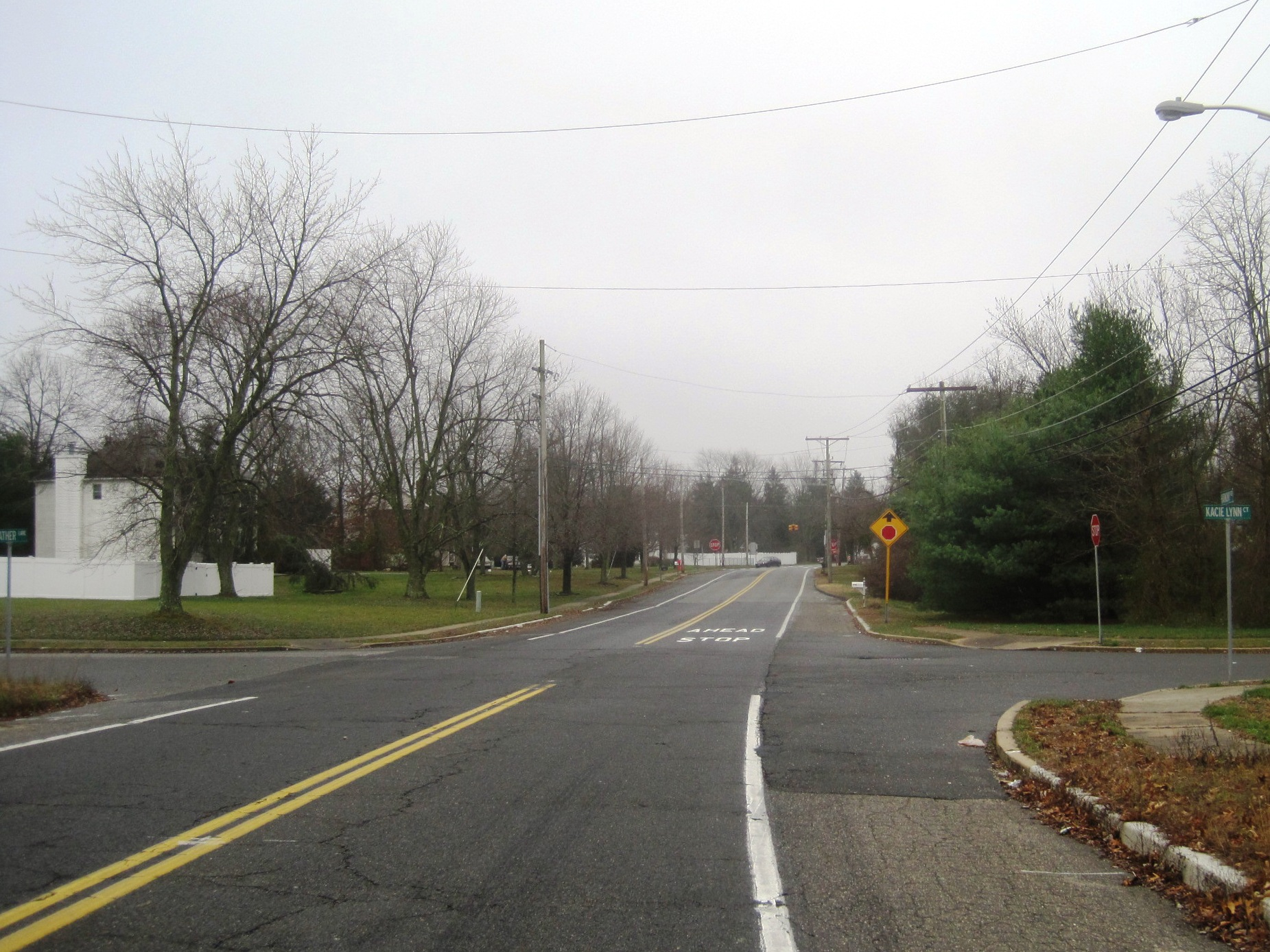 Photo of Harmony, Ocean County, New Jersey, an unincorporated community within Jackson Township. Photo taken looking south along Harmony Road approaching Hyson Road.